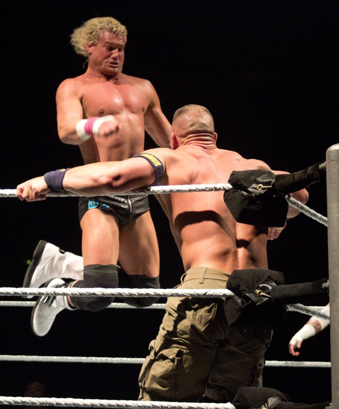 Dolph Ziggler performs a corner splash on John Cena during a WWE house show on February 2, 2013 in Montgomery, Alabama.